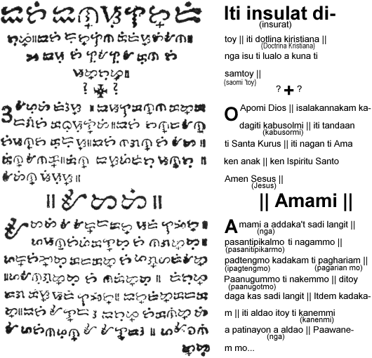 Ilokano prayer from "Libro a naisurátan amin ti bagás ti Doctrina Cristiana" written by Francisco Lopez in 1620